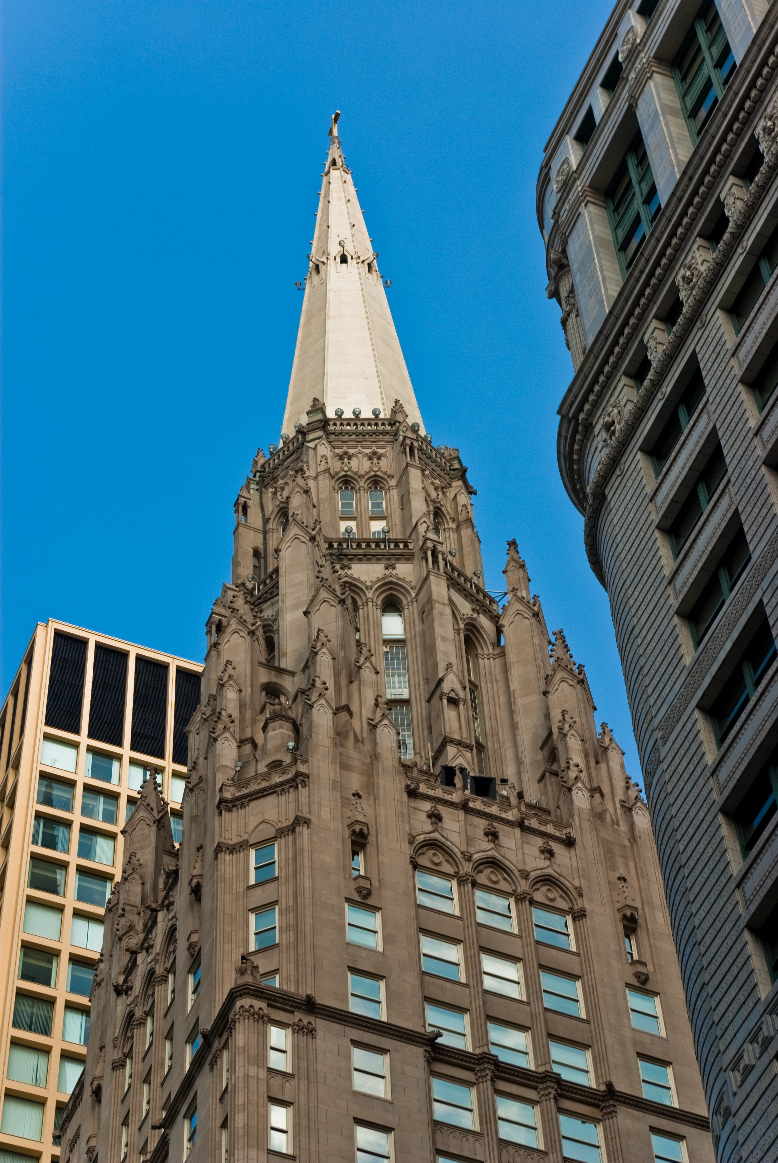 Chicago Temple Building chicago